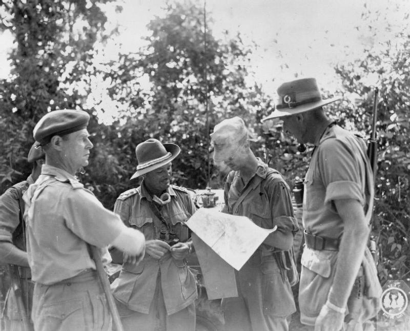 The British Army in Burma 1944 Major General Sir Collin Jardine and Major General F W Festing check the progression of advance patrols of the 36th Infantry Division in North Burma, December 1944.